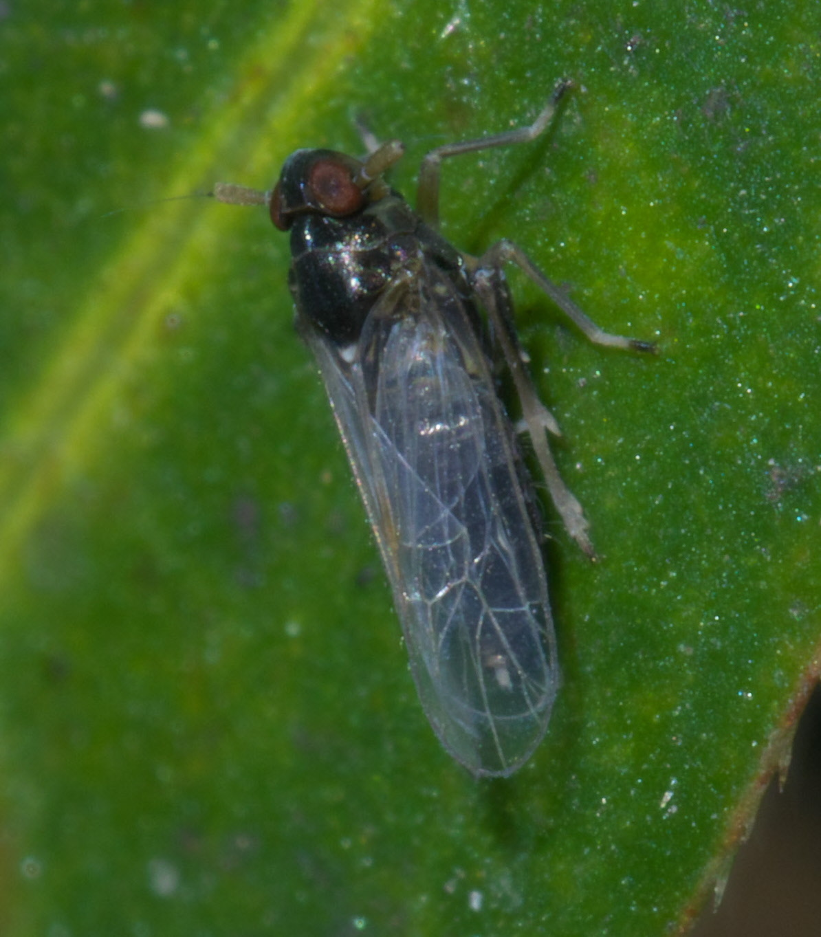 Isodelphax basivitta, Family: Delphacid Planthoppers, Size: 3.6 mm, ID Confidence: 98